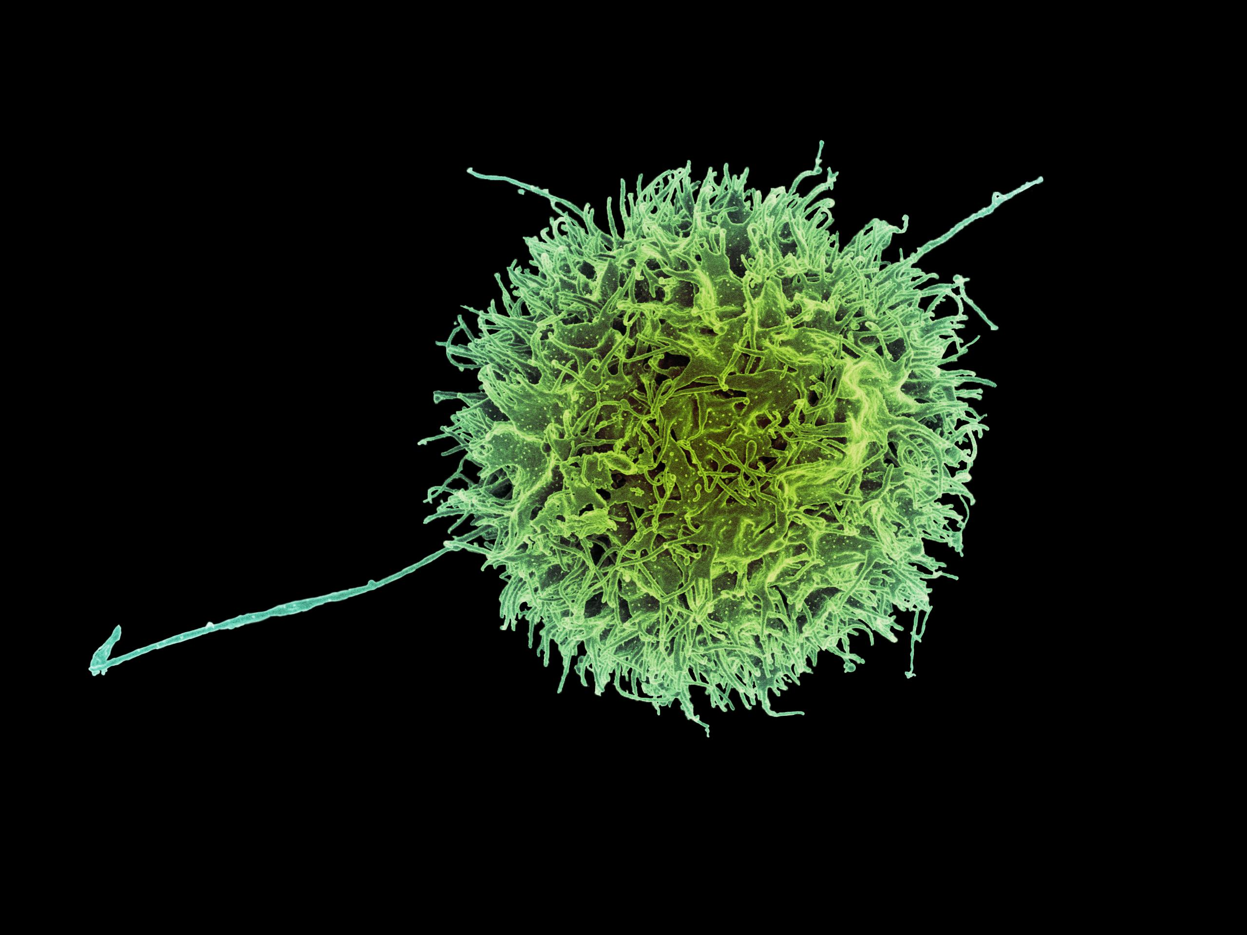 Colorized scanning electron micrograph of a natural killer cell from a human donor. Credit: NIAID